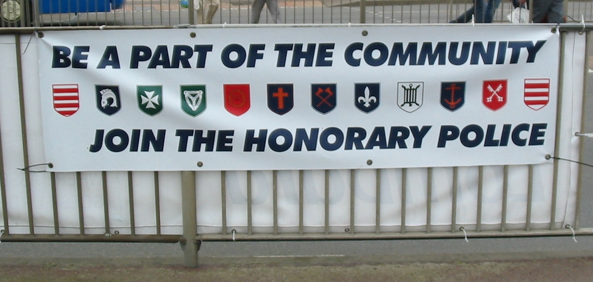 Jersey